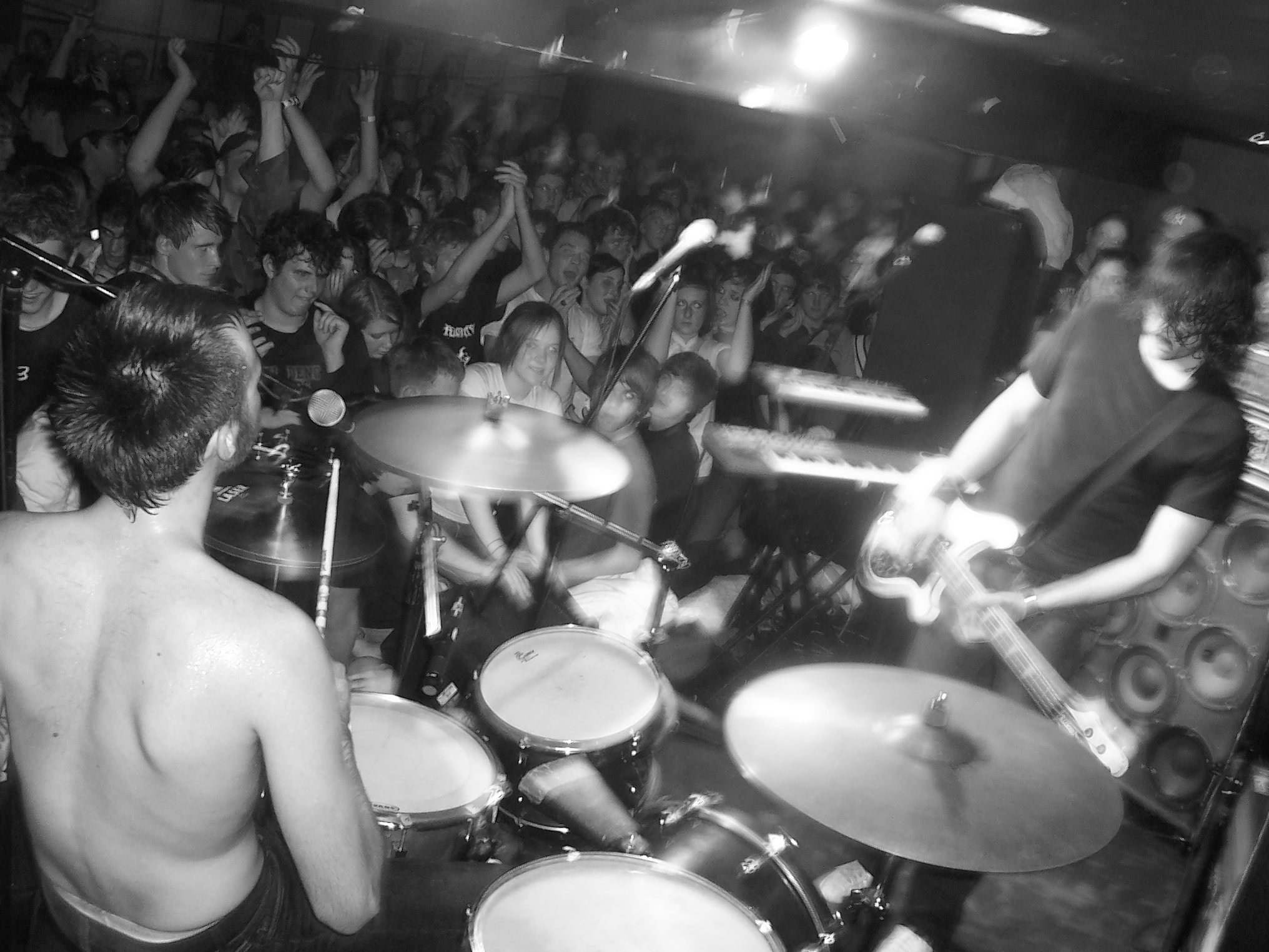 Death From Above 1979 live in St. Catharines, April 22 2005